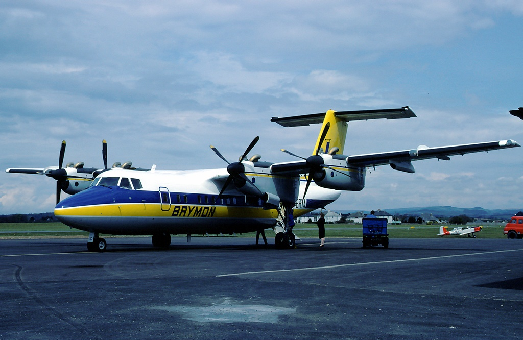 Brymon Airways De Havilland Canada DHC-7-110 Dash 7 G-BRYA at Plymouth Airport